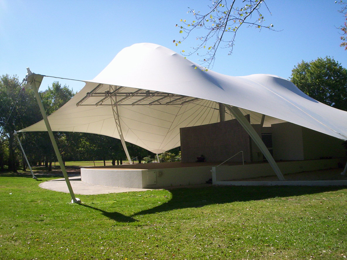 Stage 88 in Commonwealth Park